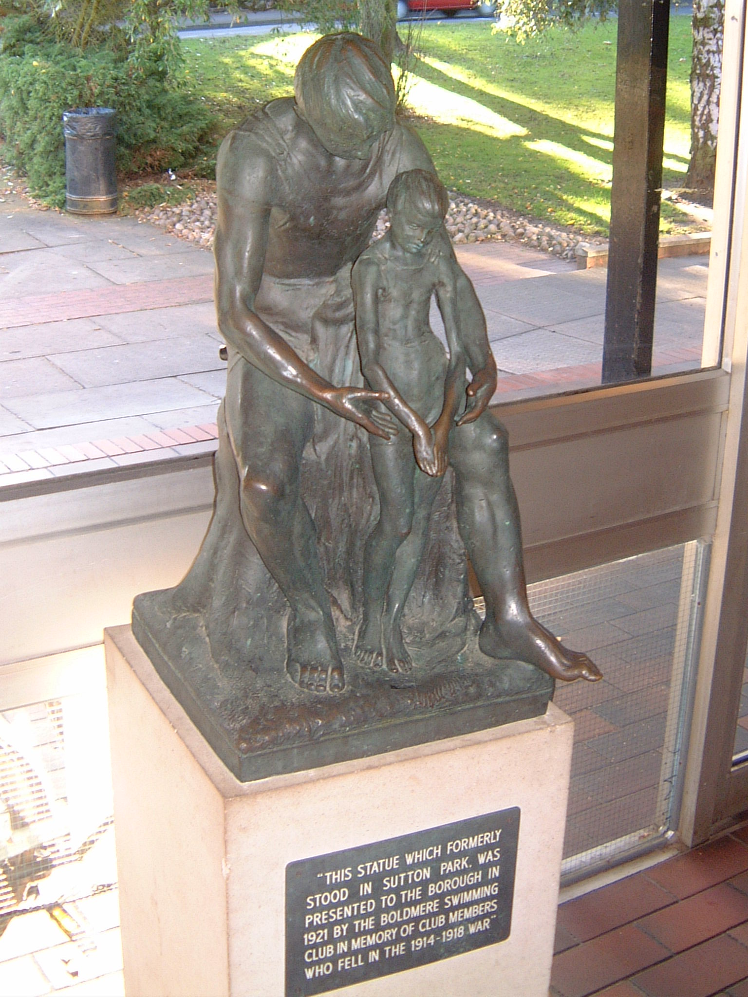 Statue in Wyndley Swimming Baths, Sutton Coldfield, Birmingham, England. The plaque attached to the statue reads: "This statue which formerly stood in Sutton Park, was presented to the borough in 1921 by the Boldmere Swimming Club in memory of club memebrs who fell in the 1914-1918 war"